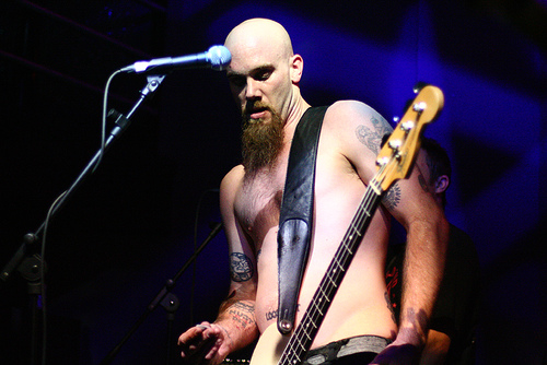 Nick Oliveri & the Mondo Generator playing live at Funktion Rooms 03.12.06.nick oliveri + the mondo generator